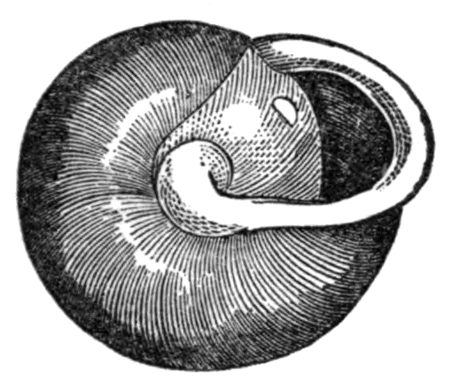 drawing of the shell of Neohelix albolabris (in the source book mentined as Polygyra albolabris)